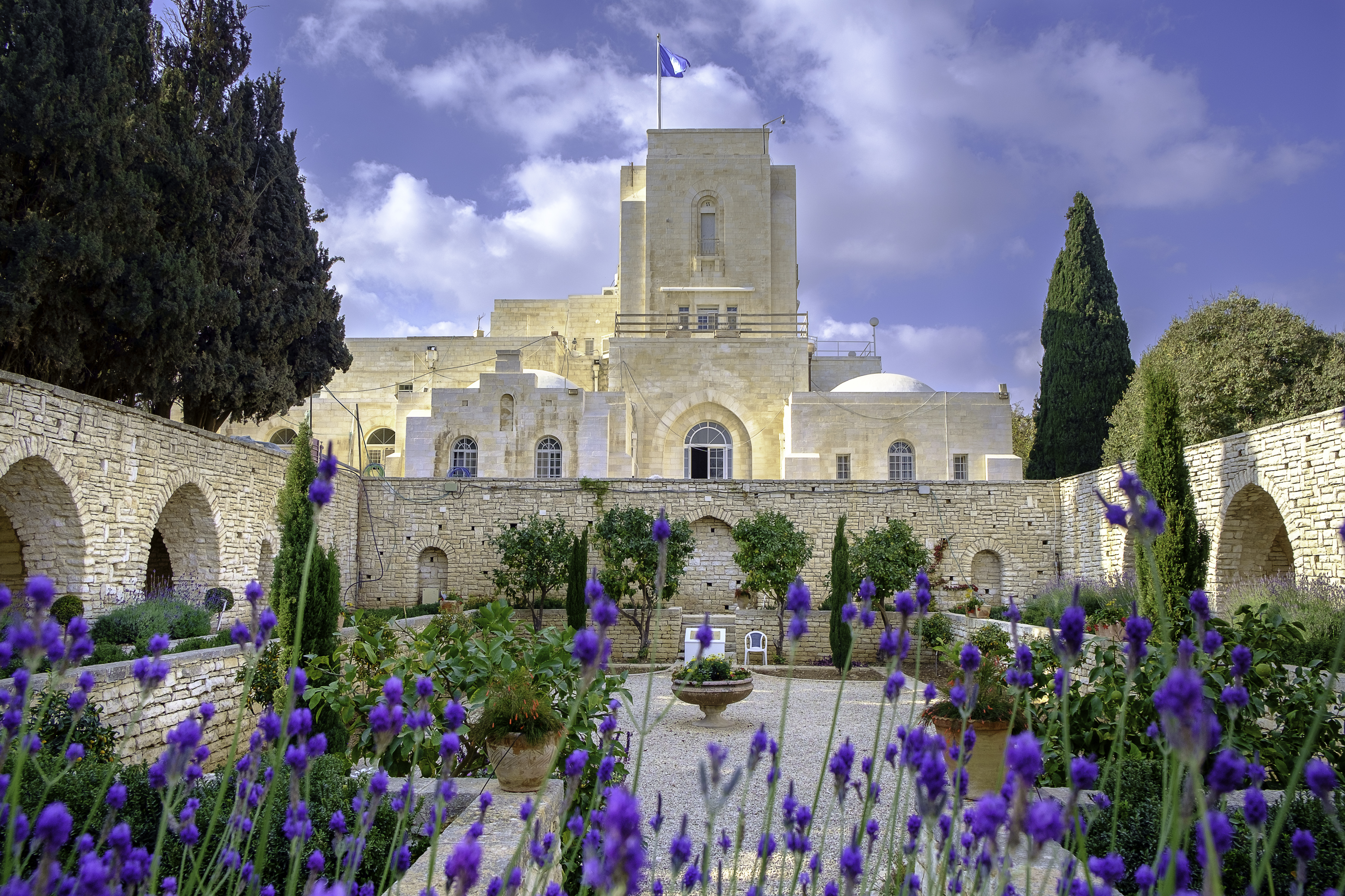 UNTSO headquarters in Jerusalem as seen from the English garden